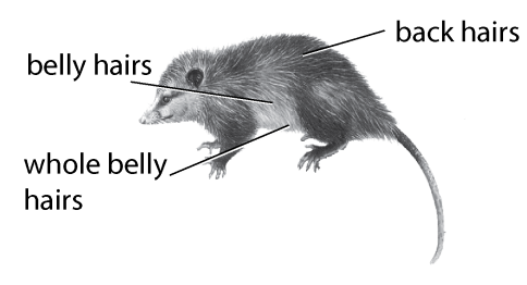 Standard Event System character depiction